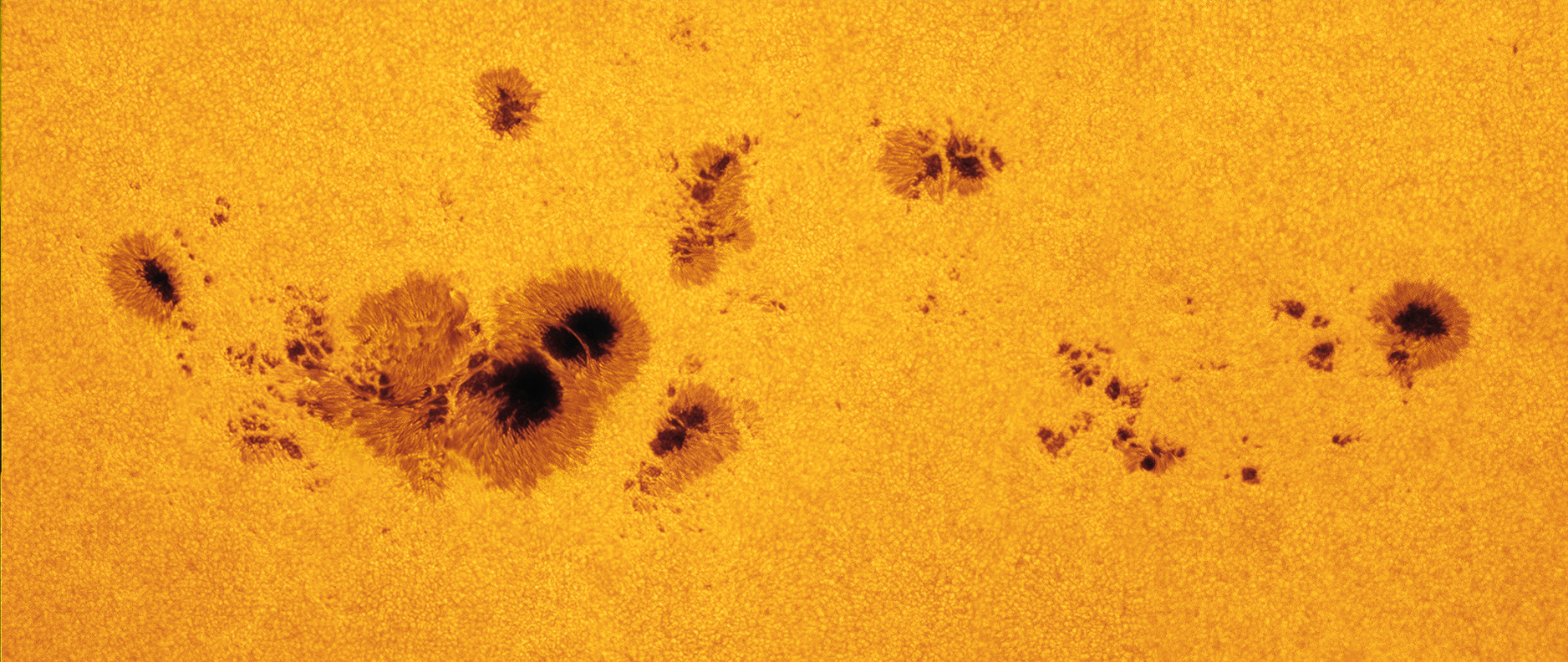 A group of sunspots, labeled as Active Region 1520 rotated into view over the left side of the sun on July 7, 2012. The large spot on the bottom left stretches more than 11 Earths, or 87,000 miles across. The full chain of spots is closer to 200,000 miles across. This image was captured by amateur astronomer Alan Friedman on July 10. Image courtesy of Alan Friedman NASA image use policy. NASA Goddard Space Flight Center enables NASA’s mission through four scientific endeavors: Earth Science, Heliophysics, Solar System Exploration, and Astrophysics. Goddard plays a leading role in NASA’s accomplishments by contributing compelling scientific knowledge to advance the Agency’s mission. Follow us on Twitter Like us on Facebook Find us on Instagram